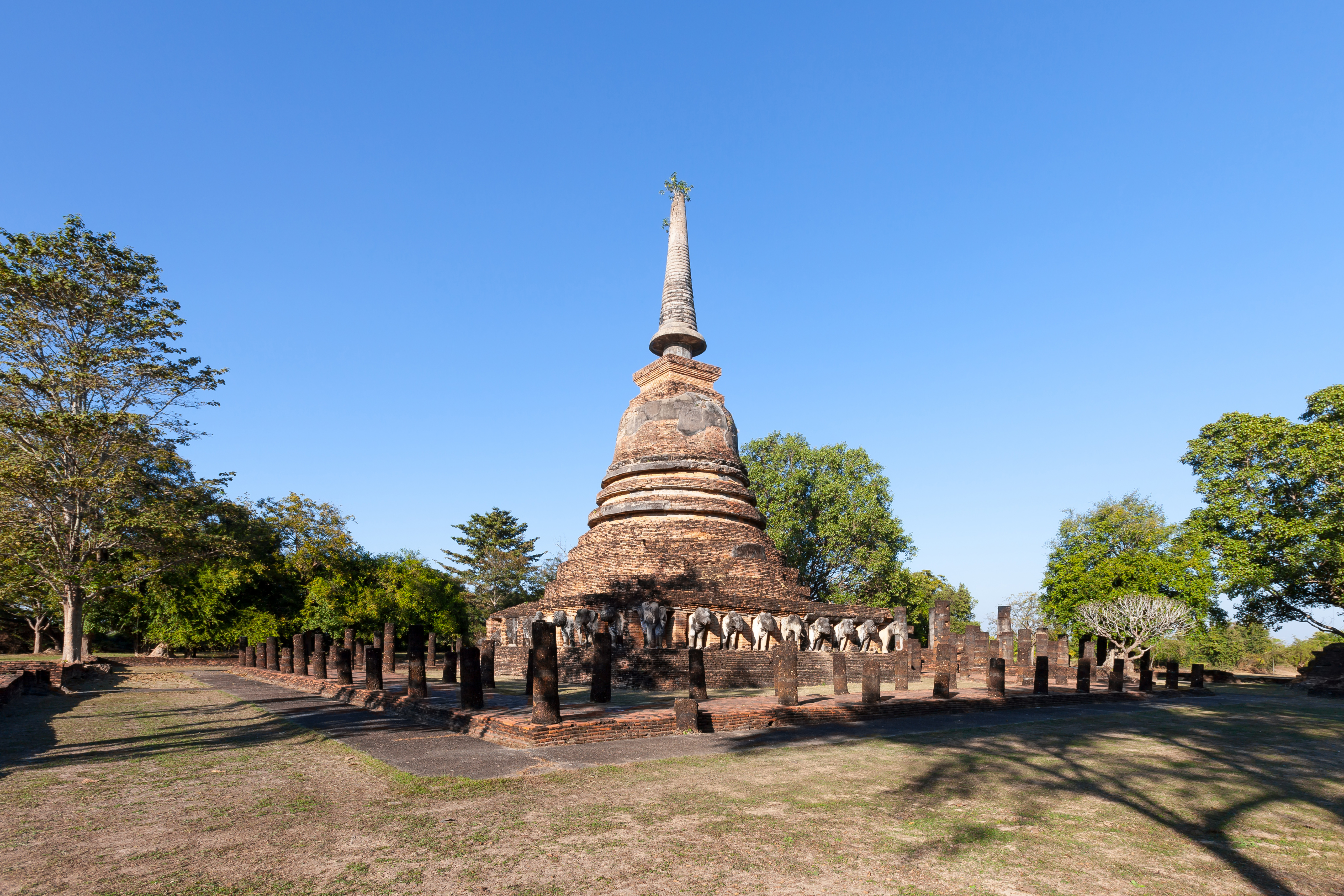 Wat Chang Lom, Mueang Sukhothai District, Sukhothai Province, northern Thailand.